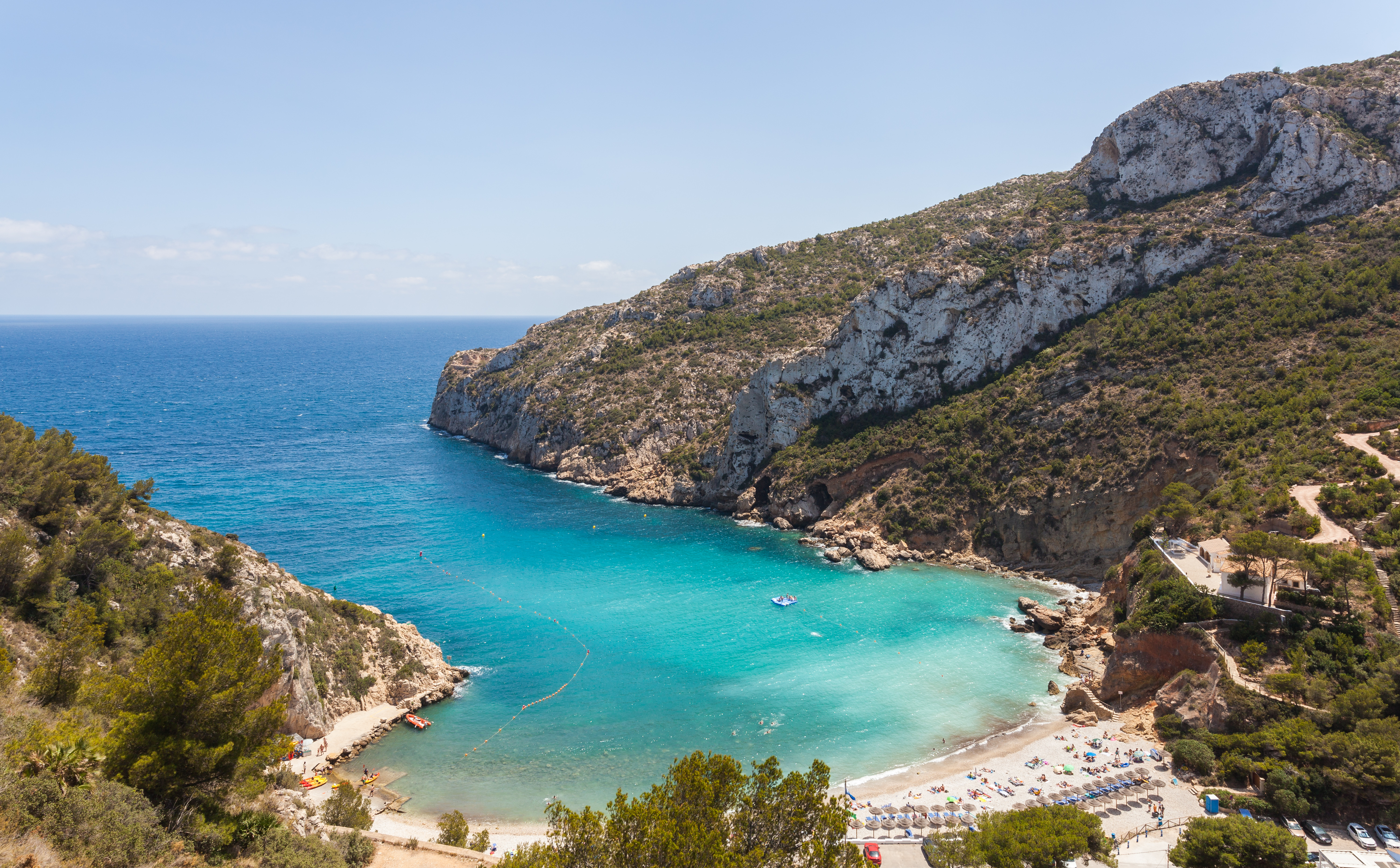 View of the beach of Granadella, Jávea, Spain. This mediterranean beach has been awarded with different prizes as the nicest in Spain. It has a length of 160 m and a depth of 10 m.